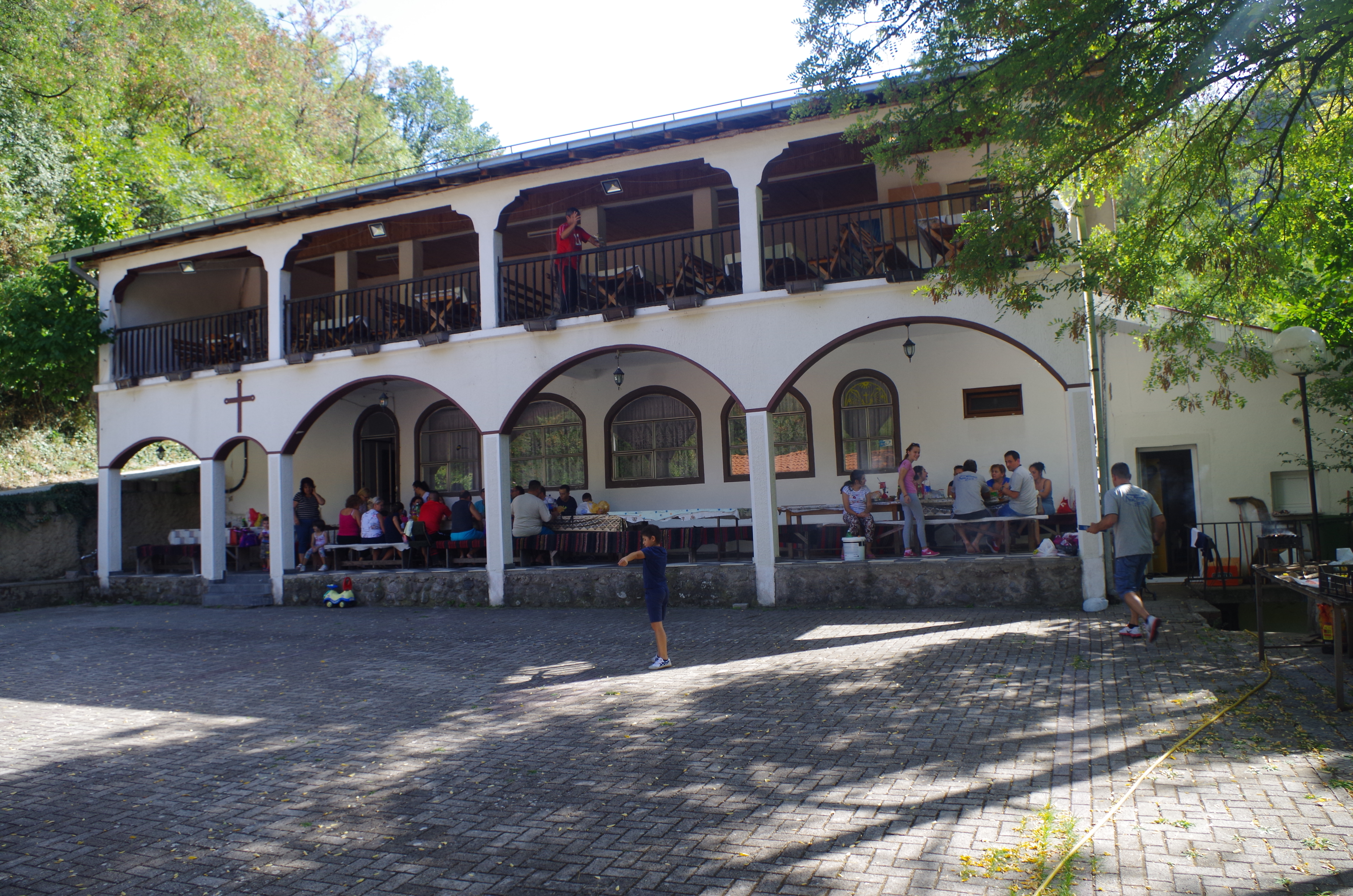 Konak in the Mokliški Monastery's yard